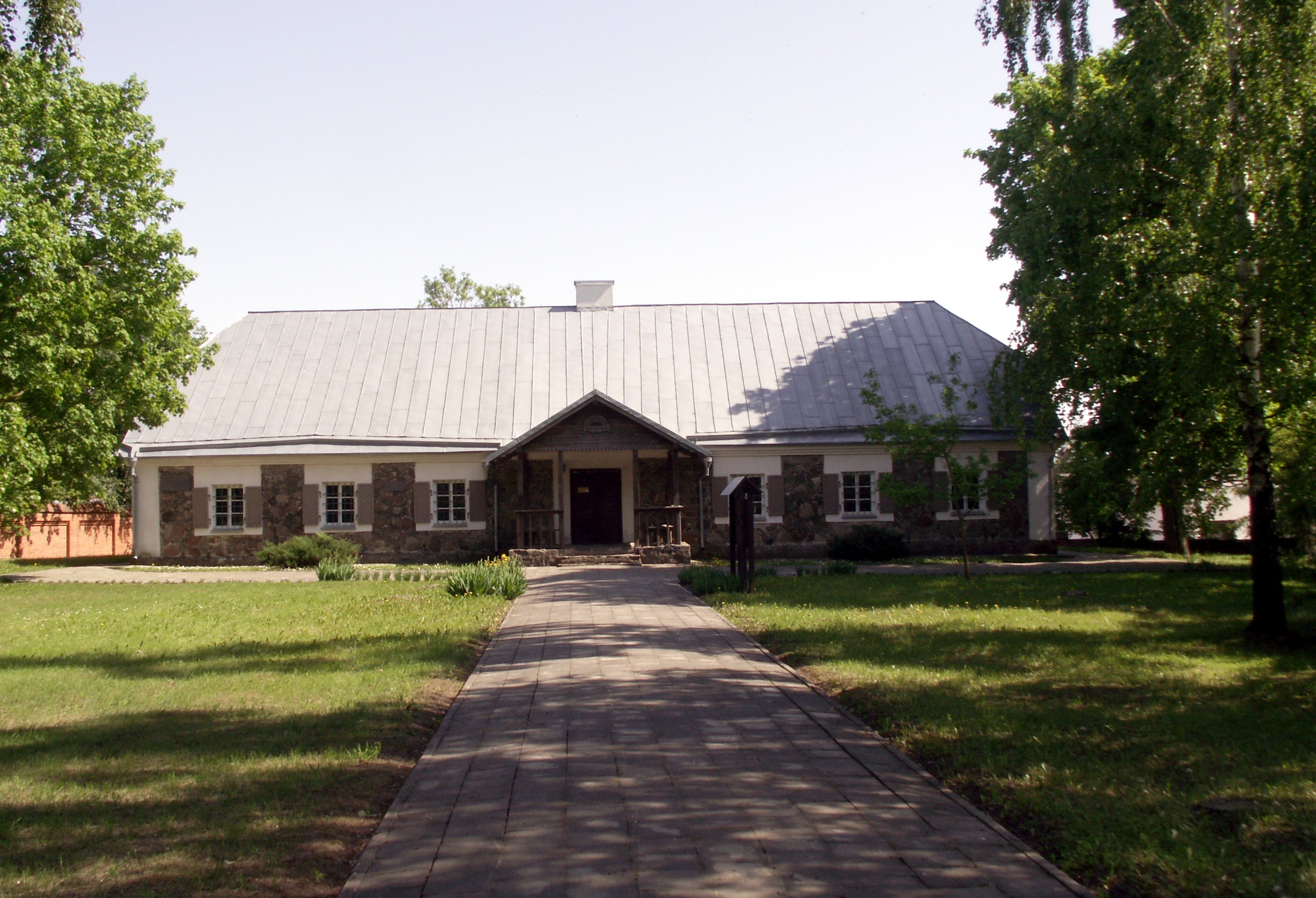 Naisiai, museum of literature, Šiauliai district, Lithuania